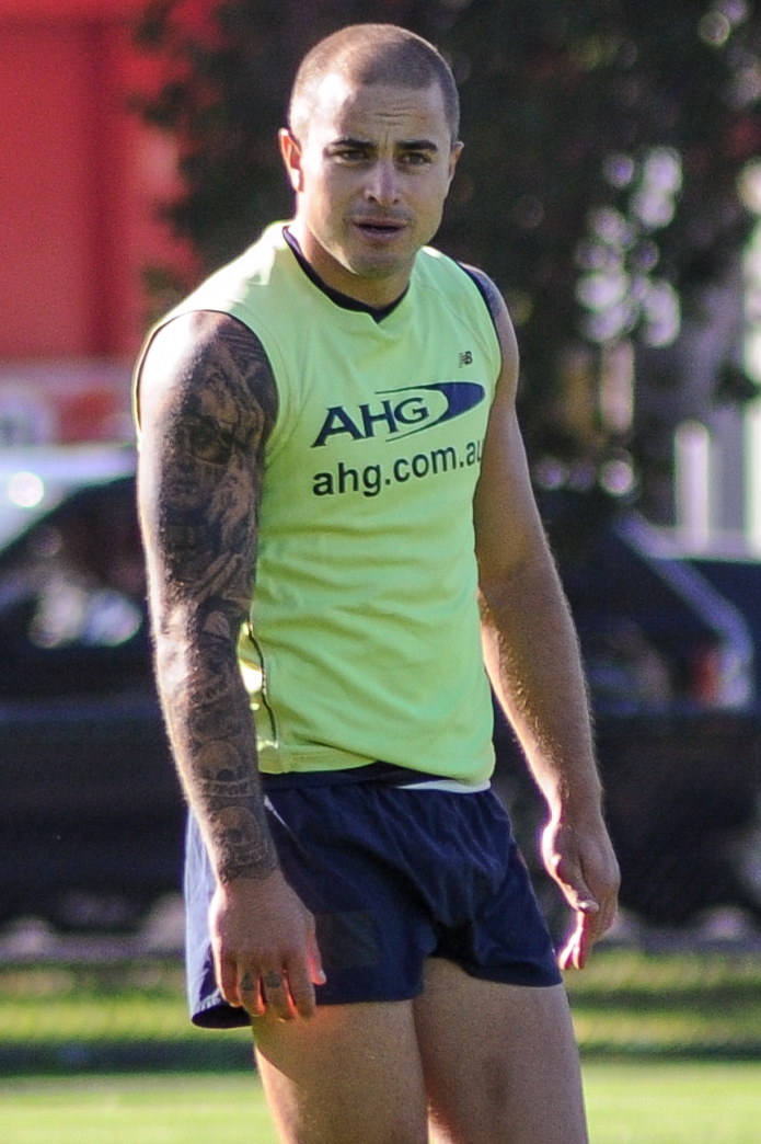 Ben Kennedy during Melbourne training on 28 March 2017 at Gosch's Paddock in Melbourne, Victoria.